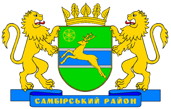 Coats of Arms of Sambir Raion, Lviv Oblast, Ukraine